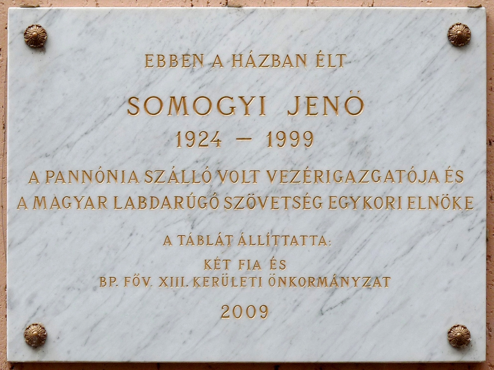 Jenő Somogyi commemorative plaque in Budapest District XIII, Herzen Street No 3